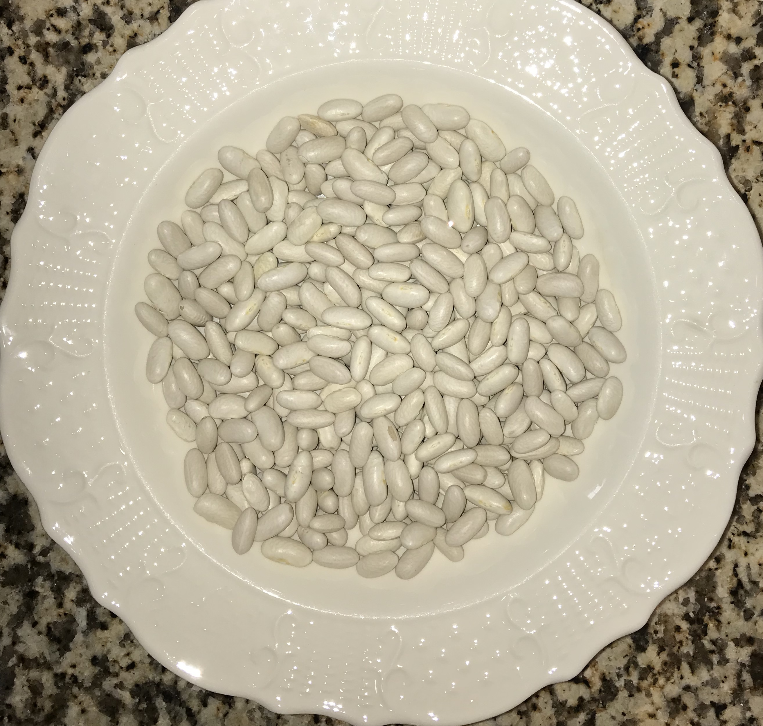 Dried sorana beans, a type of cannellini or white kidney bean